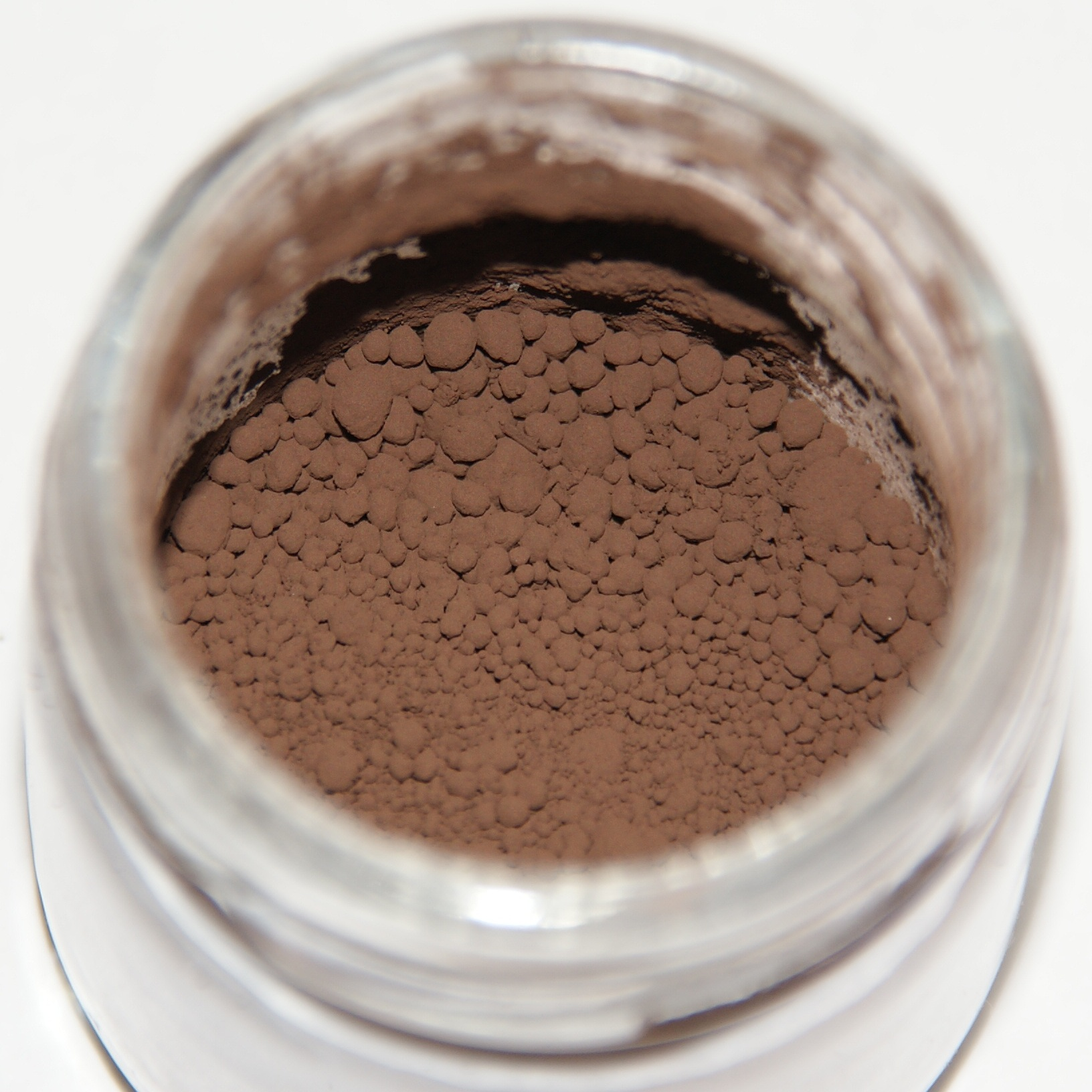 Amorphous brown boron as powder in a glass jar. 5 grams, jar diameter 4 cm.